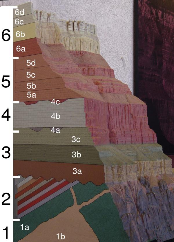 Key 6 - Hermit, Coconino, Toroweap, and Kaibab 6d - Kaibab Limestone 6c - Toroweap Formation 6b - Coconino Sandstone 6a - Hermit Shale 5 - Supai Group 5d - Esplanade Formation 5c - Wescogame Formation 5b - Manakacha Formation 5a - Watahomigi Formation 4 - Temple Butte, Redwall, and Surprise Canyon 4c - Surprise Canyon Formation 4b - Redwall Limestone 4a - Temple Butte Limestone 3 - Tonto Group 3c - Muav Limestone 3b - Bright Angel Shale 3a - Tapeats Sandstone 2 - Grand Canyon Supergroup 1 - Vishnu Group 1b - Zoroaster Granite 1a - Vishnipou Schist Photo of a display in the Grand Canyon visitor's center. Taken and modified by Daniel Mayer.